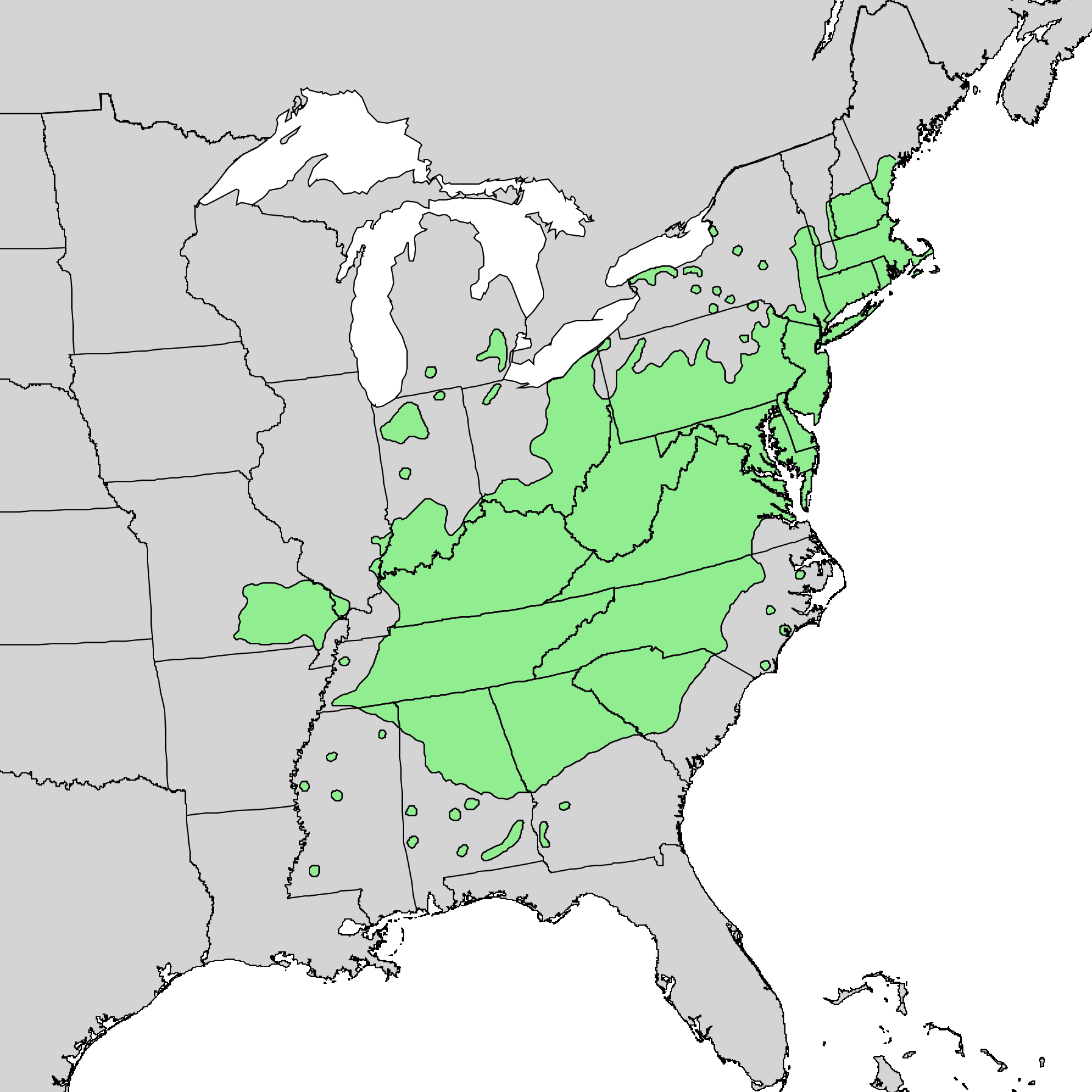 Natural distribution map for Quercus coccinea